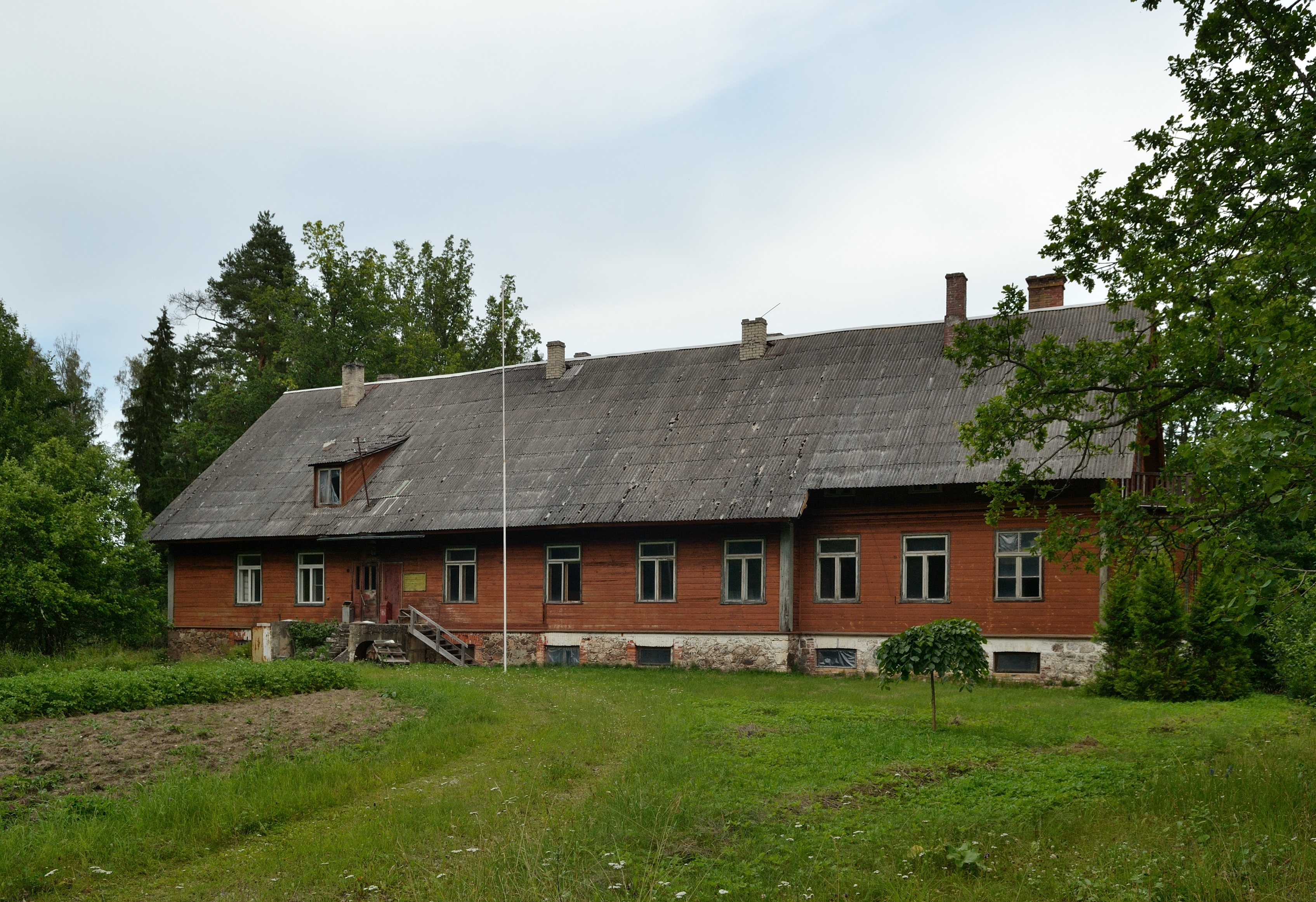 Rahumäe manor main building